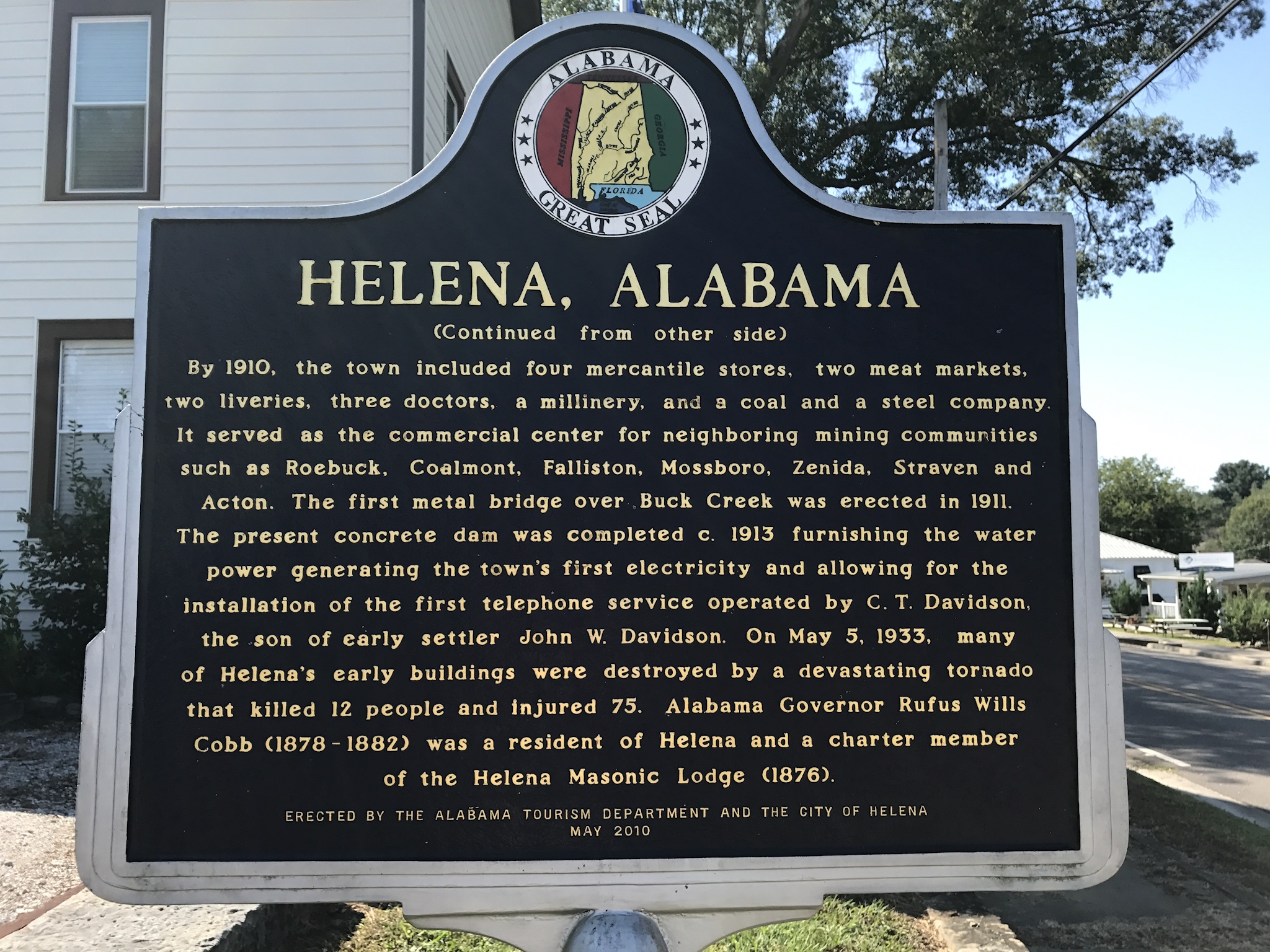 Helena, AL town historical marker sign